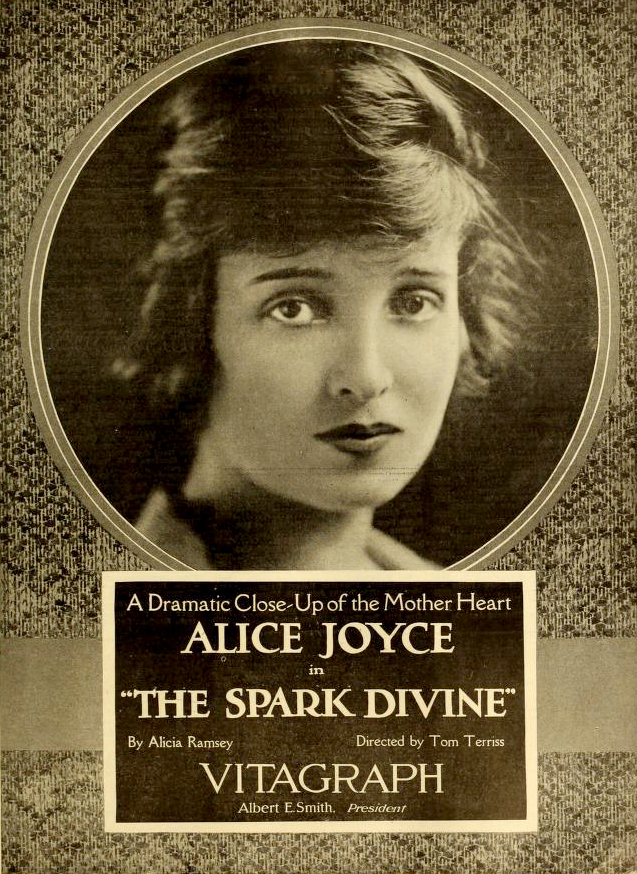 Advertisement in Moving Picture World, June 1919 for the American film The Spark Divine (1919) with Alice Joyce.